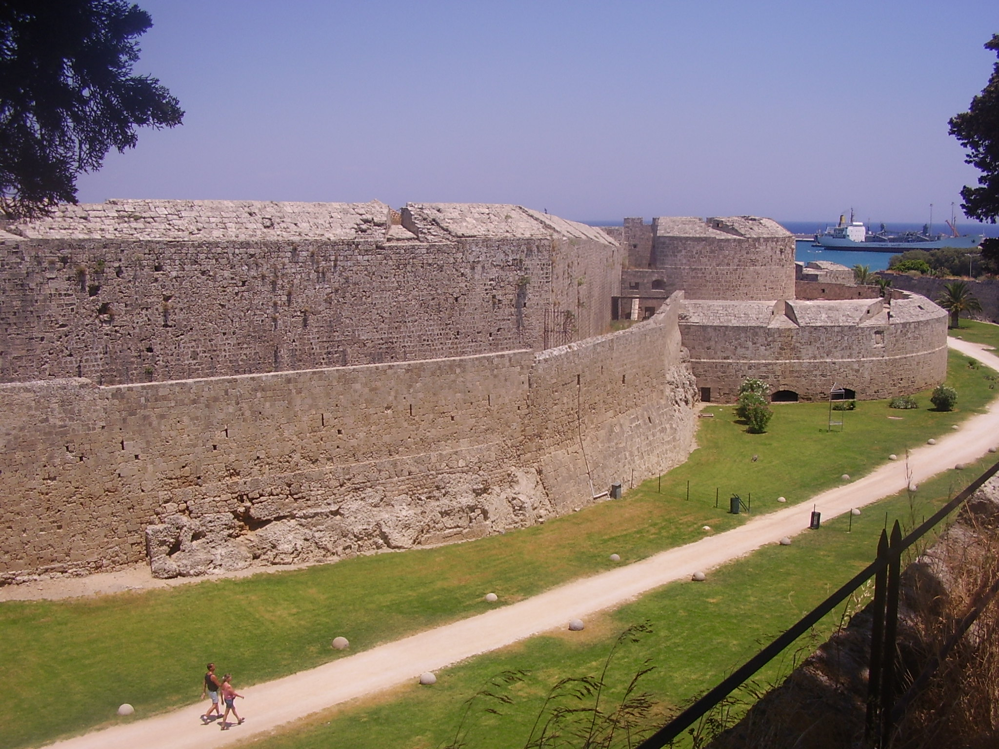 The Del Carretto Rampart, Rhodes Island. Photographed by myself, Michele Perillo, July 2006